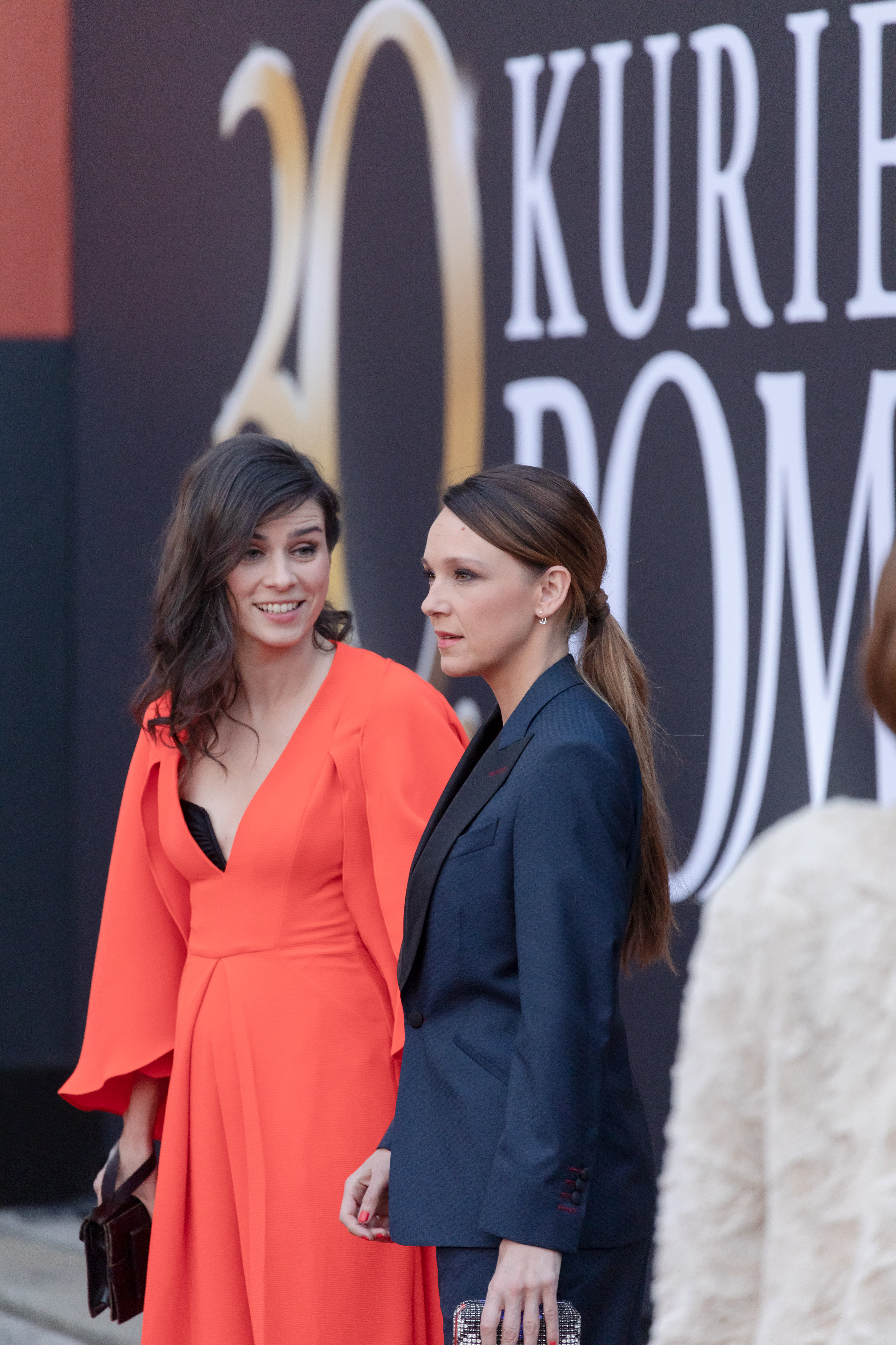 Nora Tschirner (l.) and Carolin Kebekus on the red carpet of the Romy TV awards 2019 at Hofburg Palace in Vienna, Austria.